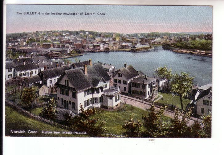 Postcard: Bird's eye view of Norwich Harbor in Norwich, Connecticut, 1909 Description: "unposted card from 1909 ( Official Souvenir card from the 250th anniversary of Norwich in July of 1909)"